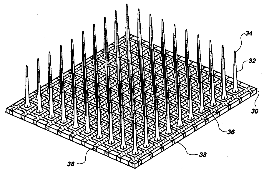 From Richard A. Normann's US Patent #5,215,088 Three-dimensional electrode device